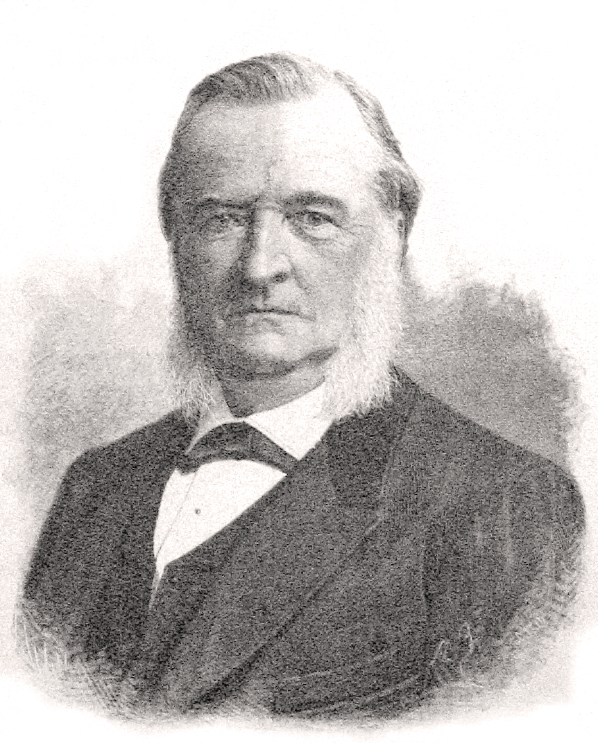 Portrait of Karl Ivanovich Maximovich